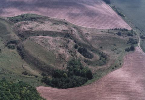 Sárbogárd, Hungary, aerialphotography